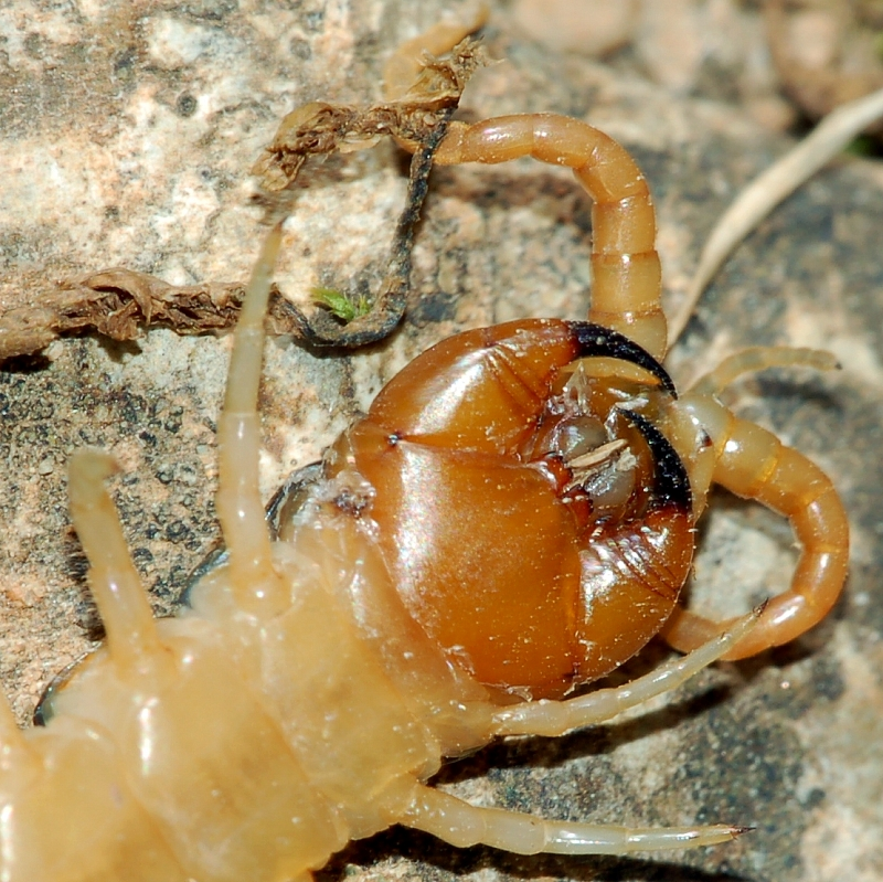 Centipede Scolopendra cingulata - Ventral side of head, showing mandibles. Frouzet, Languedoc-Roussillon, France